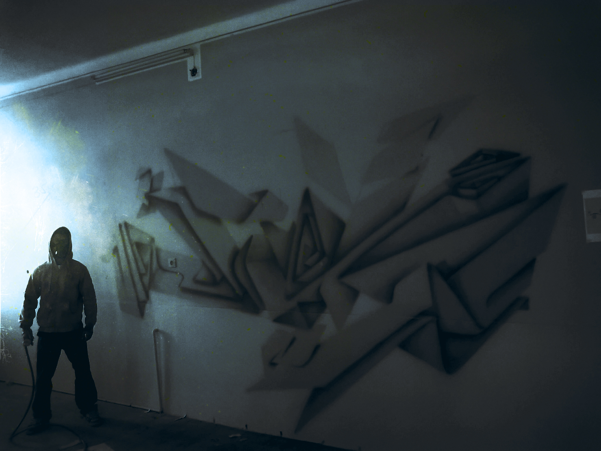 persian graffiti